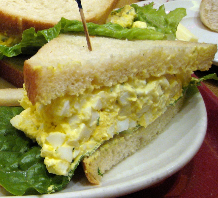 Egg salad sandwich